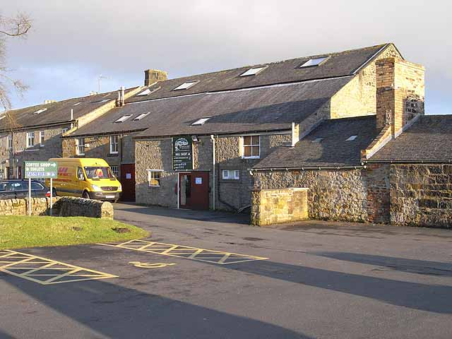 Coffee shop at Otterburn Mill Otterburn Mill is a popular mill shop and coffee shop just off the A696 in the village of Otterburn. The coffee shop is sited in the old weaving shed.